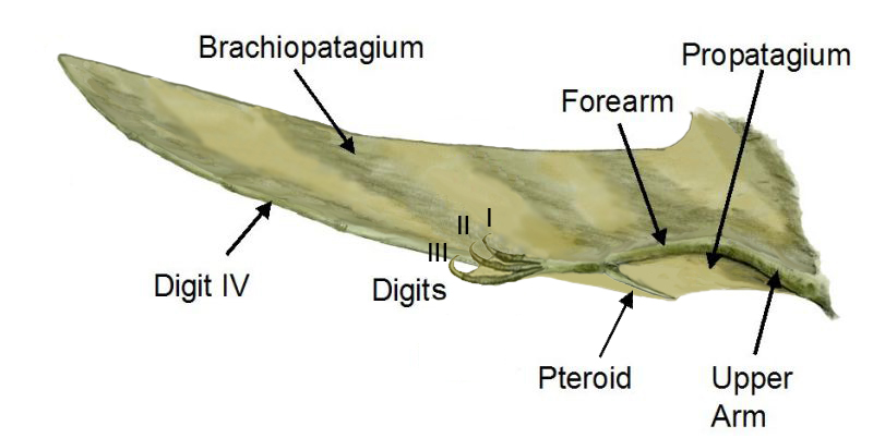 Schematic of a generic pterosaur wing, pencil drawing, digital coloring